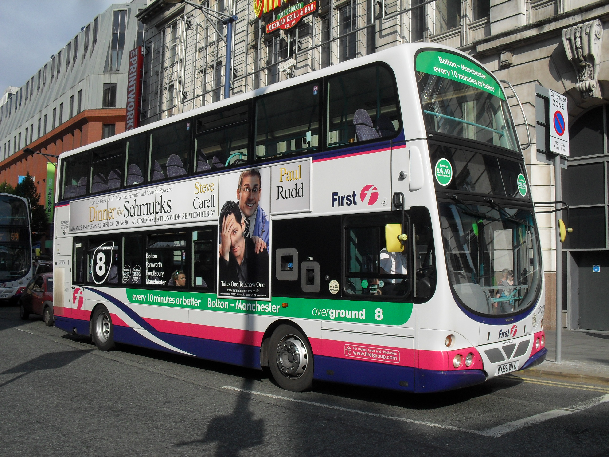 Can't remember the road ... it's somewhere in central Manchester. On 3 September 2010, MX58 DWK waits at a junction with a route #8 service to Bolton.